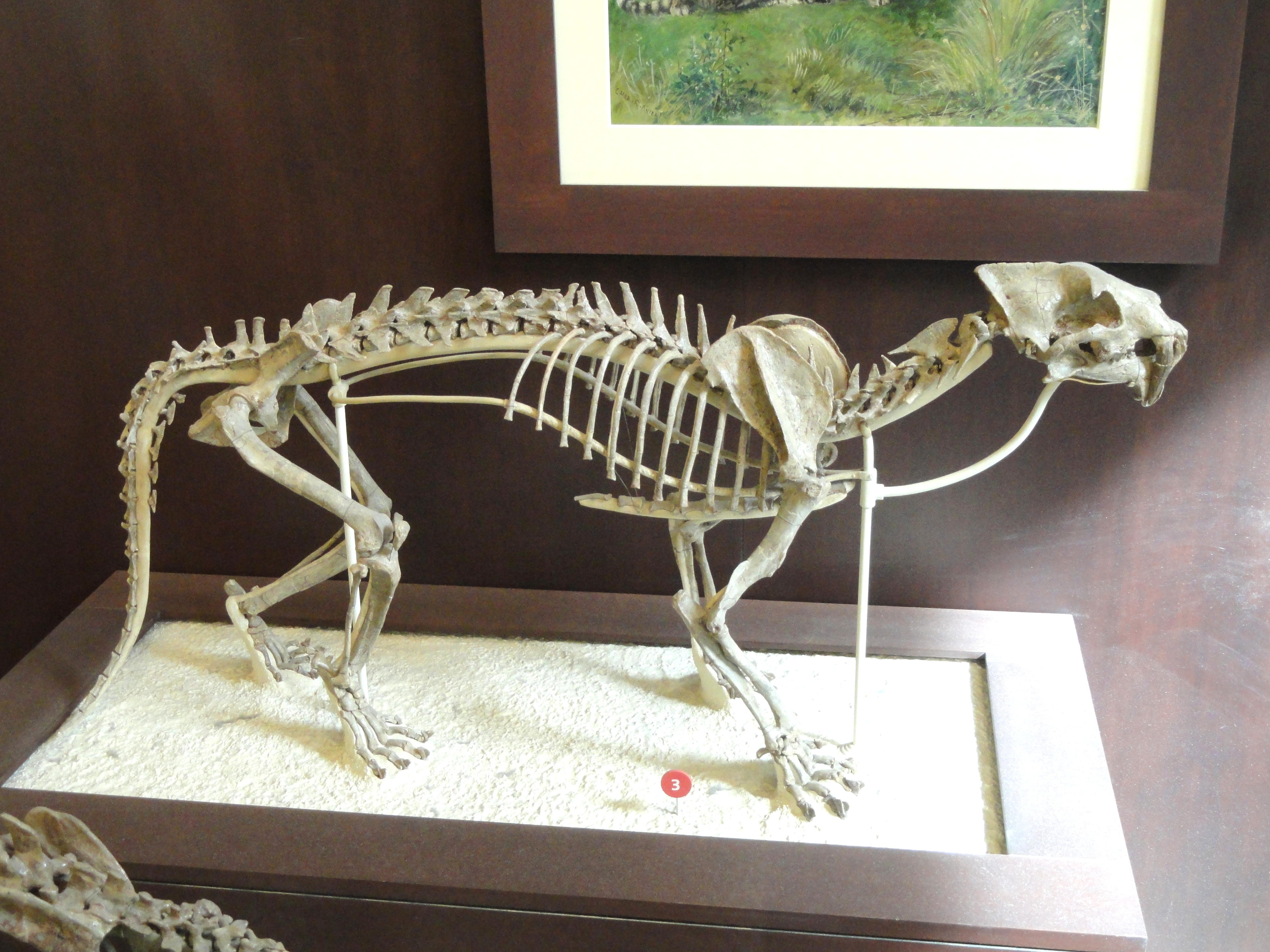 Exhibit in the fossil collection of the American Museum of Natural History, Manhattan, New York City, New York, USA.